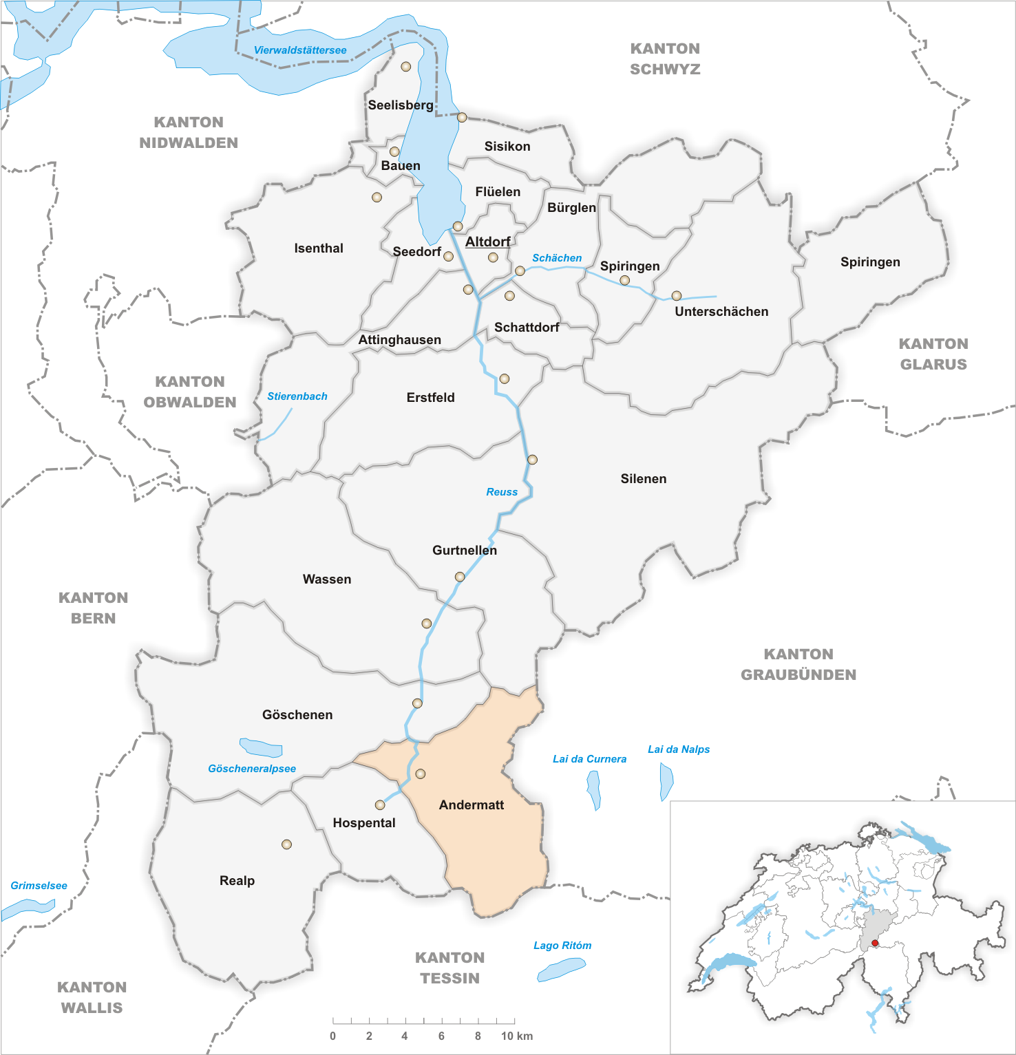 Municipality Andermatt